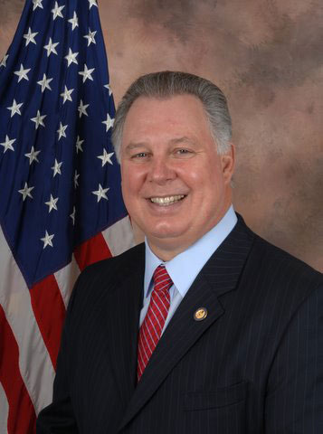 Albio Sires, member of the United States House of Representatives.